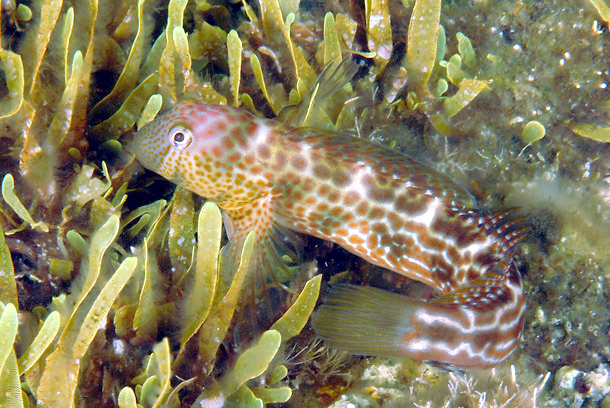 Lipophrys canevae photographed near Tuscany coasts. Photo by Stefano Guerrieri